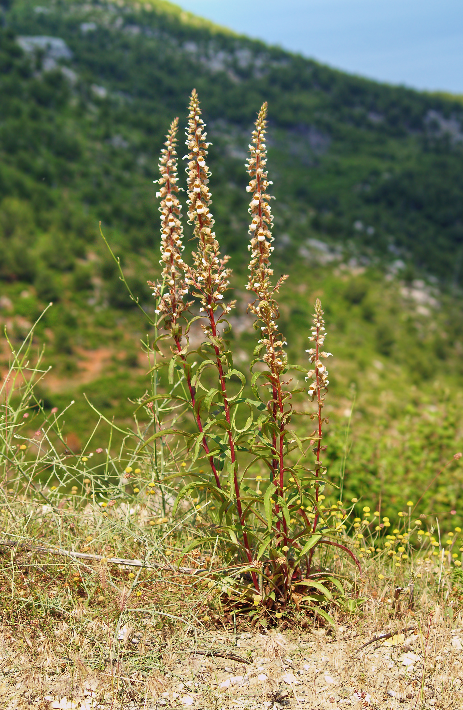 Woolly Foxglove (Digitalis lanata), Thasos, Greece